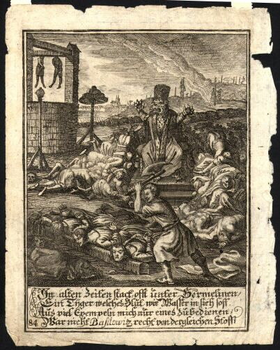 Allegory of the tyranical reign of Ivan IV.